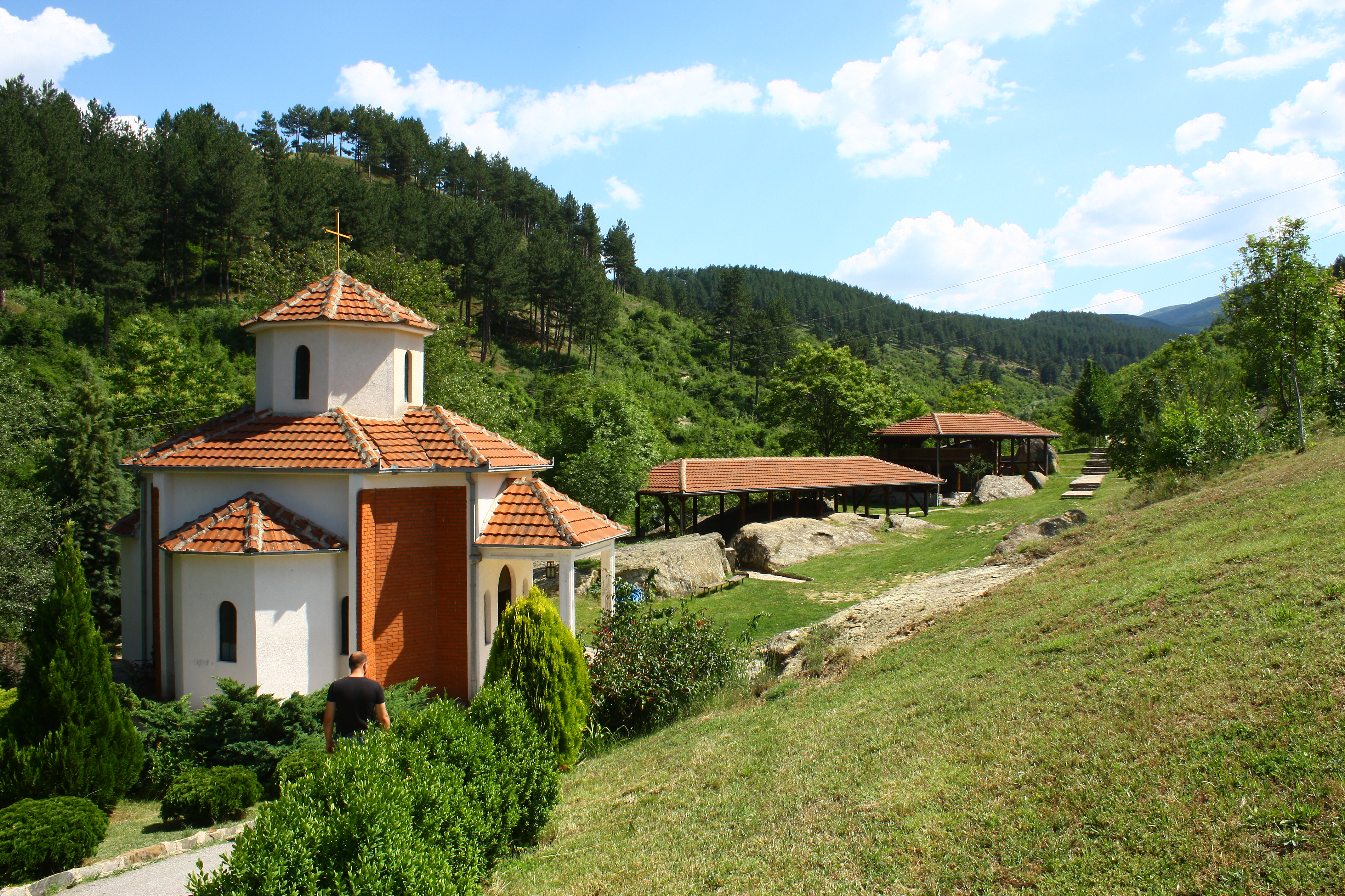 Church of the Theotokos Life Giving Spring in Delčevo Monastery, Macedonia